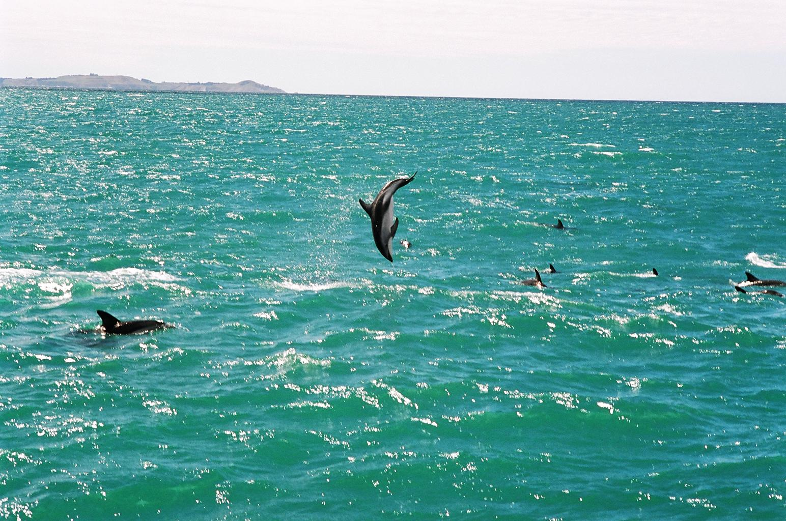 Dusky dolphins at Kaikoura, New Zealand.